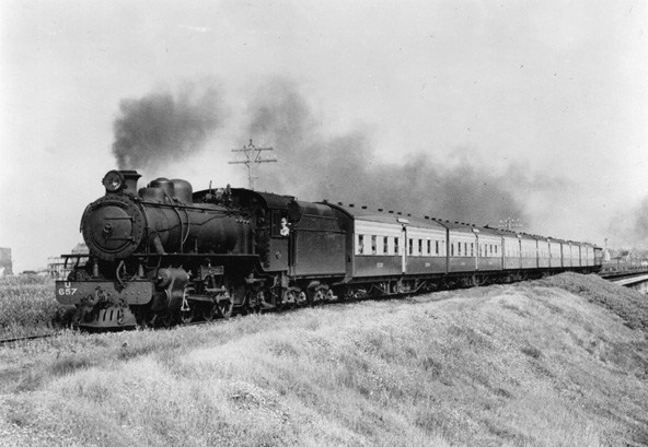 A three quarter view of WAGR U class steam locomotive, no. U657, with The Australind, location unclear but somewhere in Western Australia.